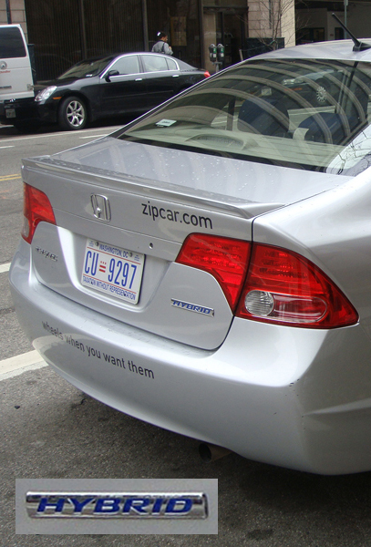 Honda Civic Hybrid badging used in second generation (2005–2011), and other Honda hybrid models (Insight and CRZ)